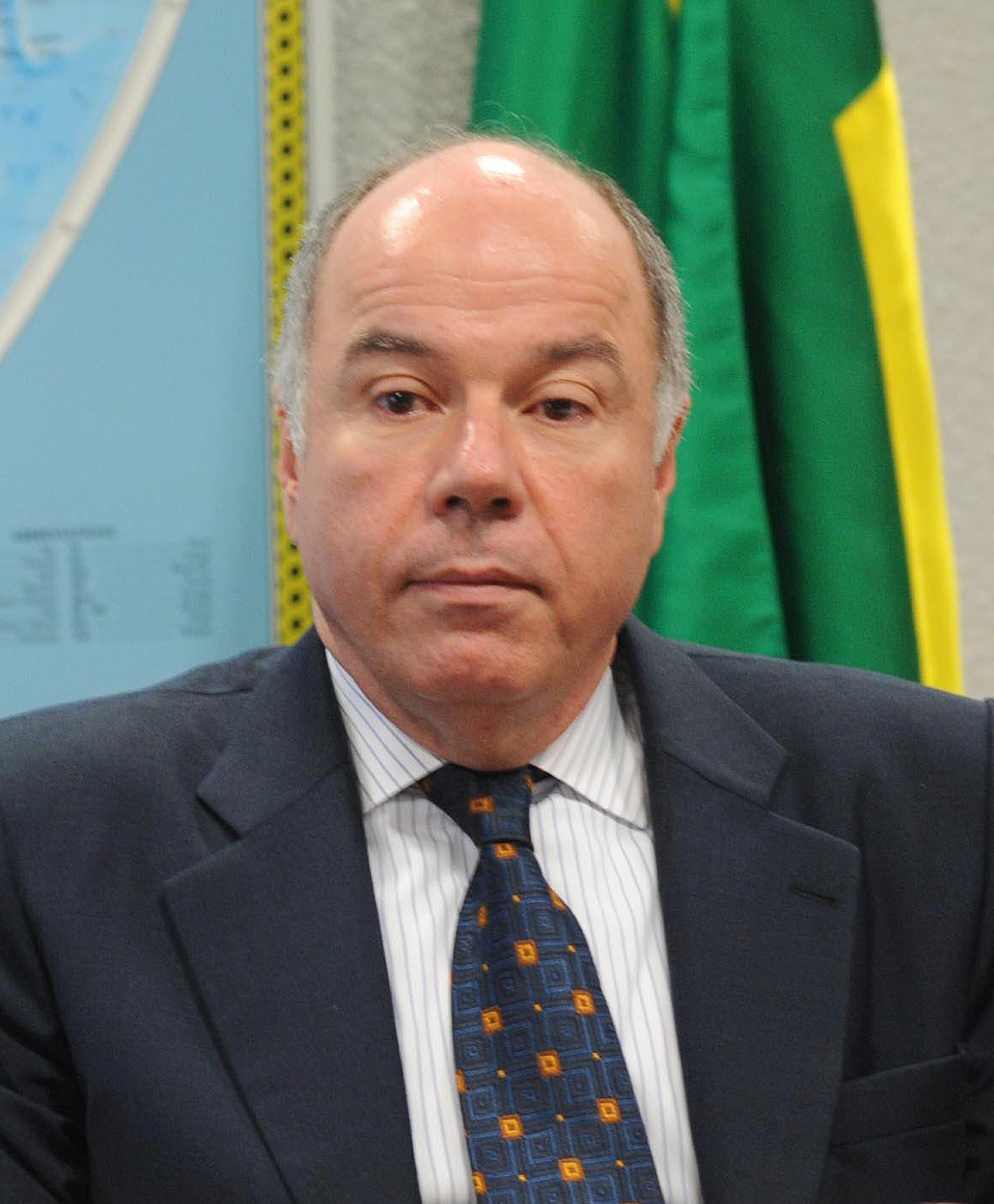 Mauro Vieira, Ambassador of Brazil to the United States.